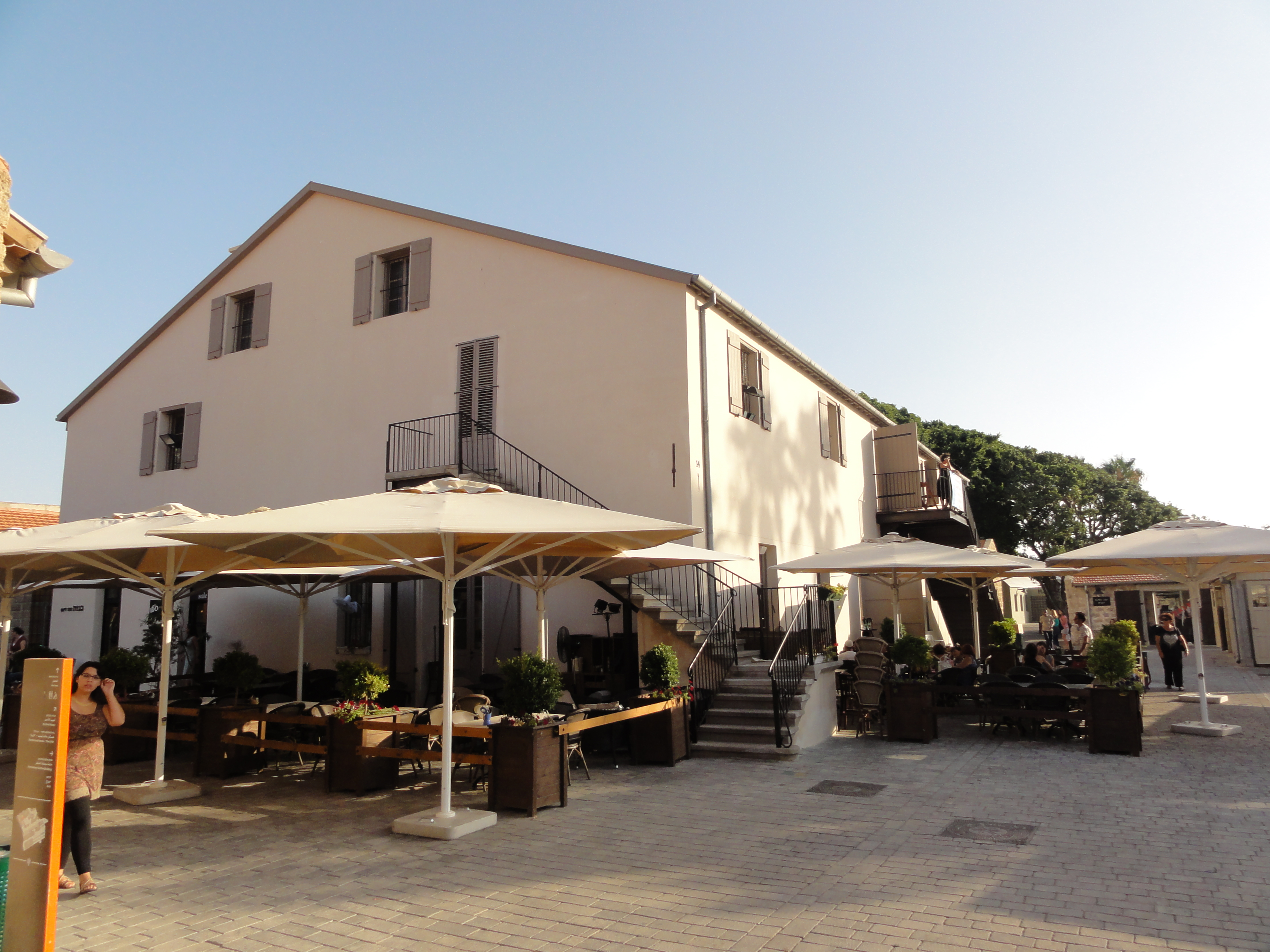 Former Jaffa Train Station, Israel.